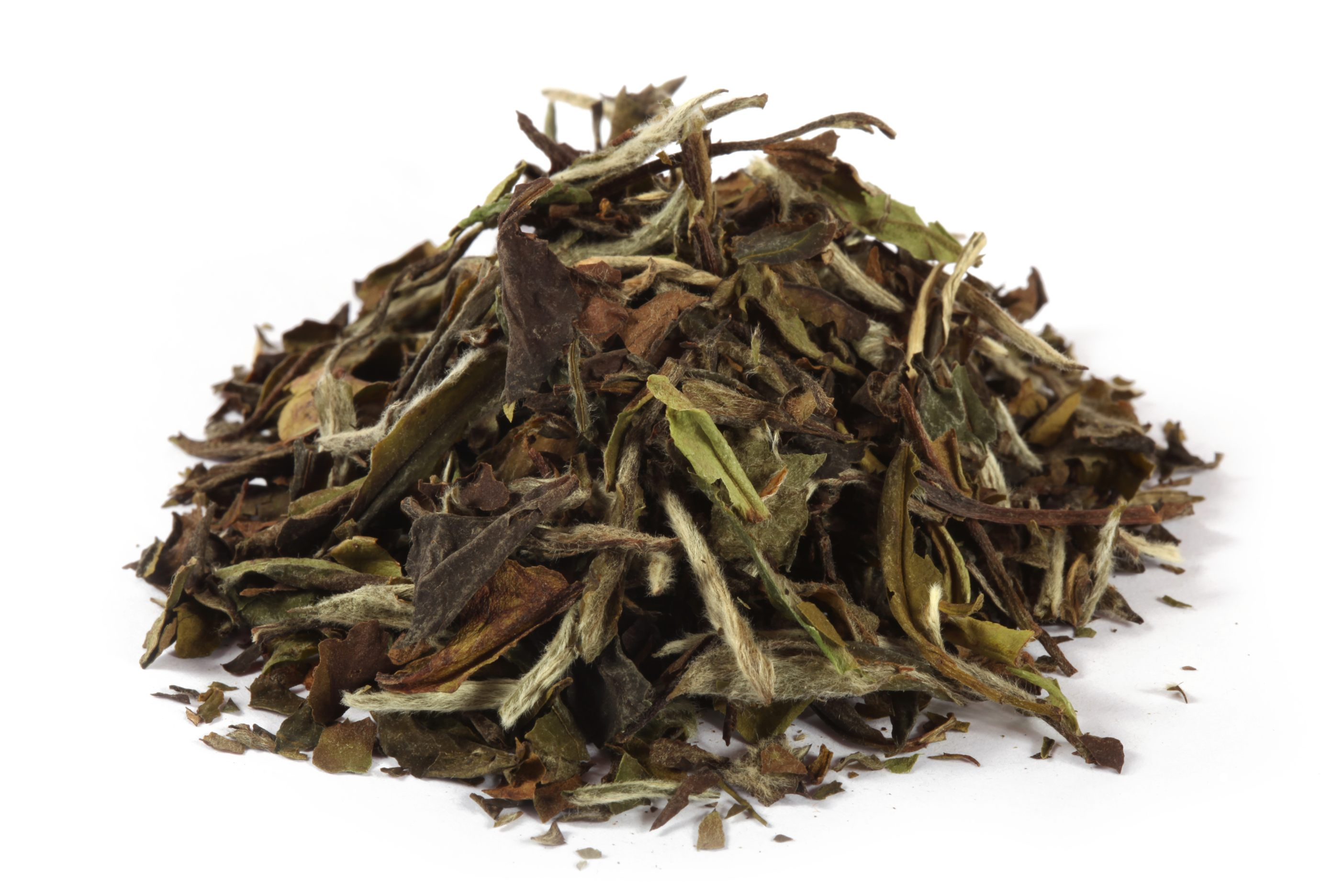 Bai Mudan, close-up photo.